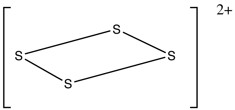 S4 Cluster